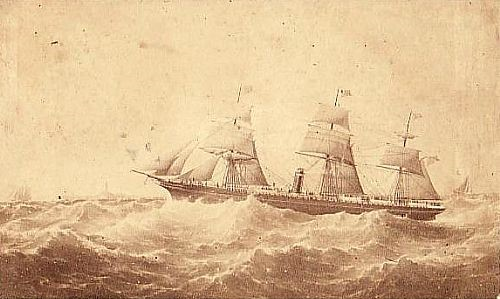 Inman Line of Mail Steamers "City of Boston"